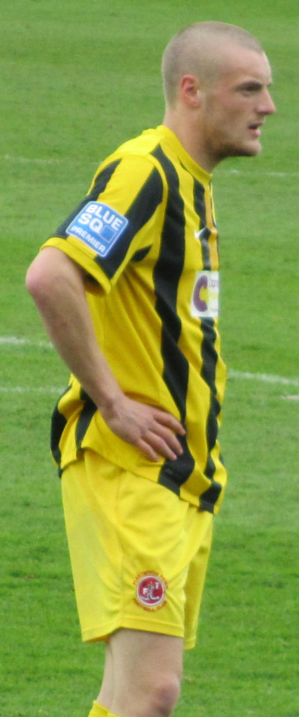 Jamie Vardy